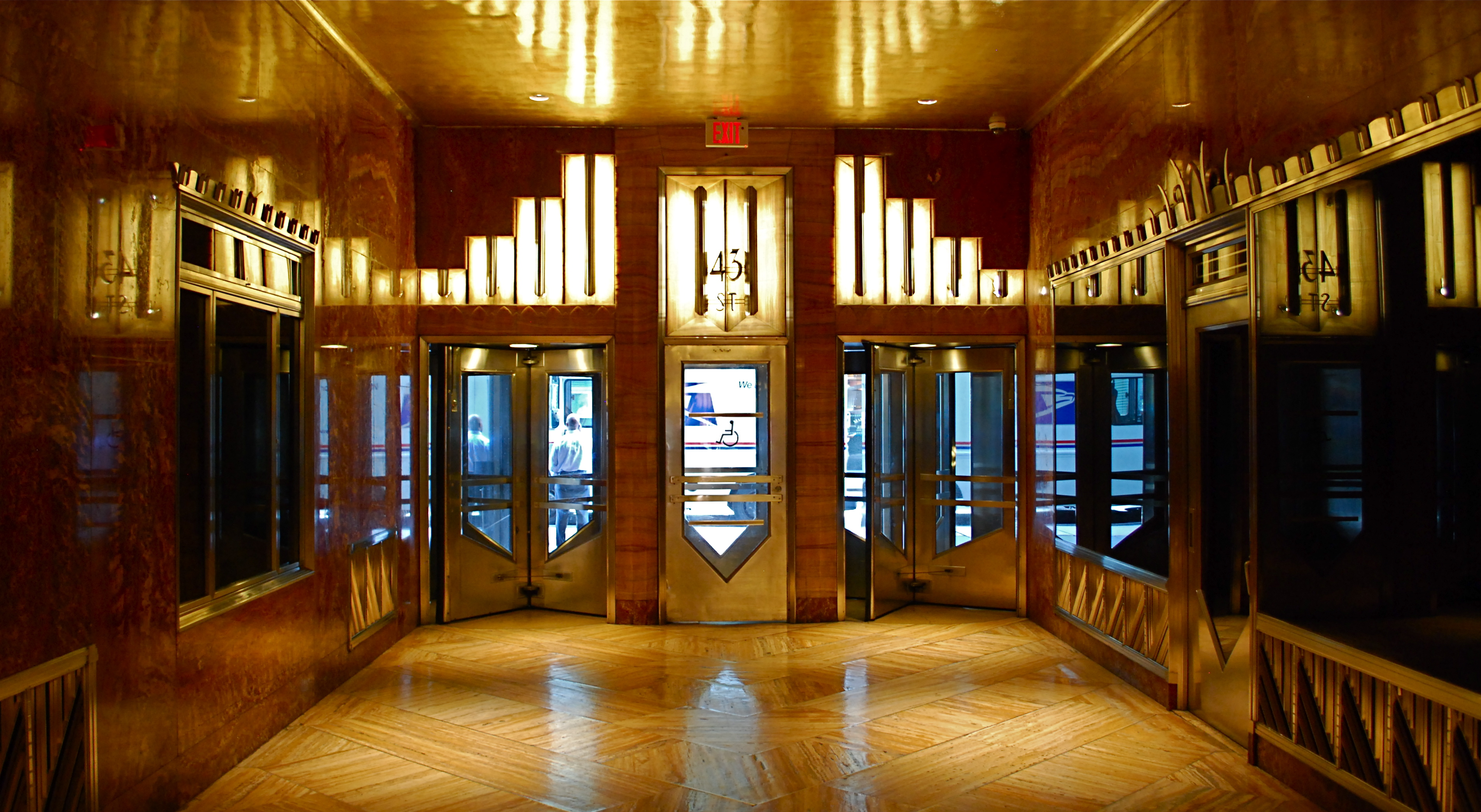 Chrysler Building Lobby